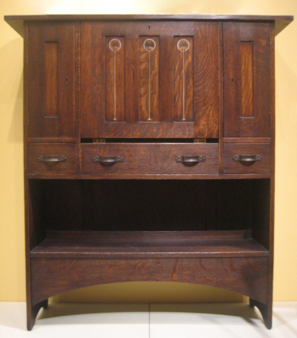 Oak, wood inlay and brass Arts and Crafts desk by Harvey Ellis.